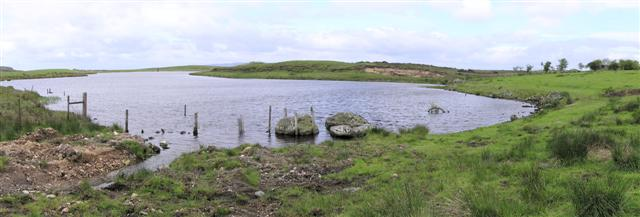 Lough Mallon, County Tyrone